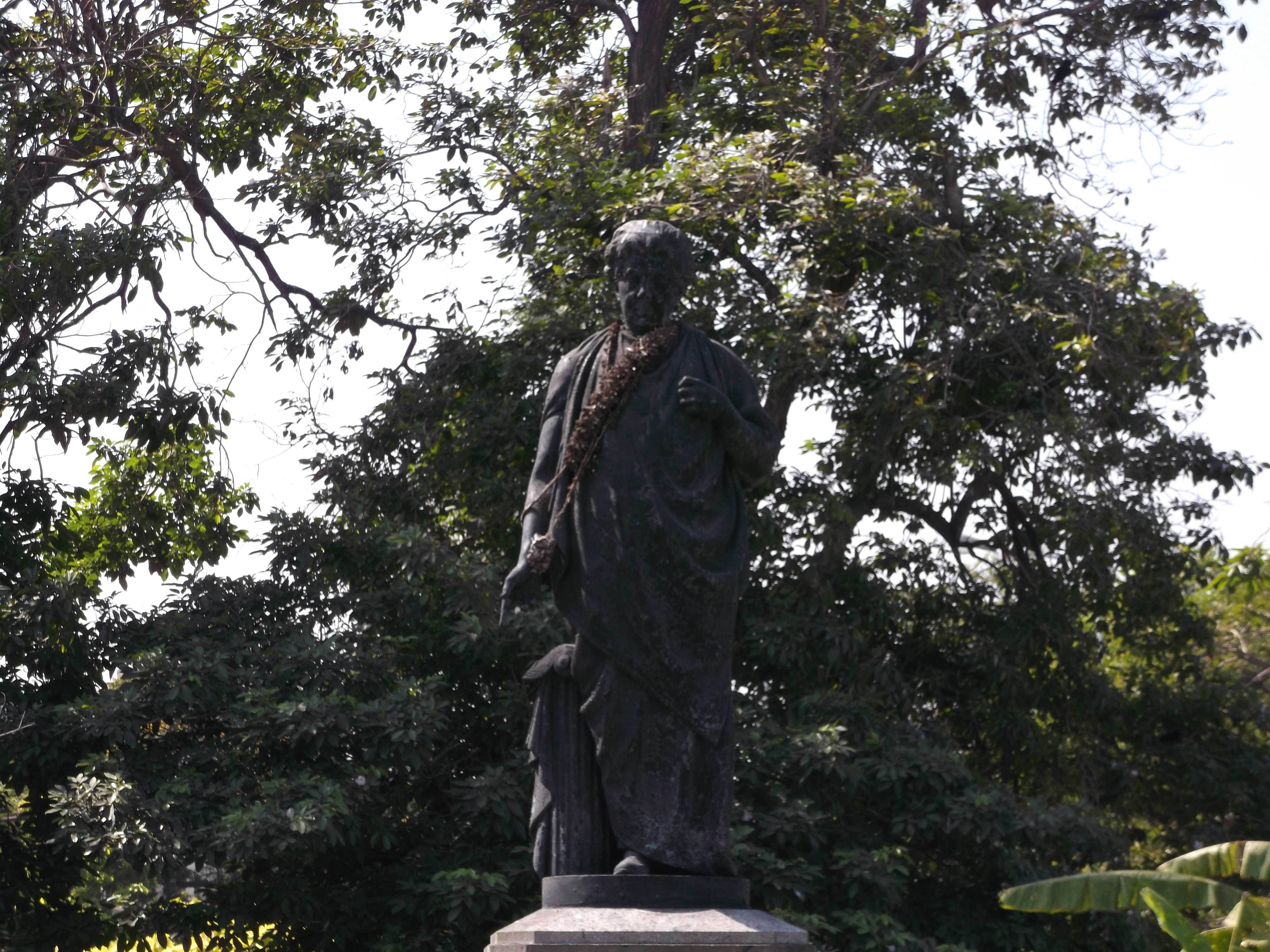 Marina Beach, Annie Besant statue, taken on 2-Feb-2013 afternoon